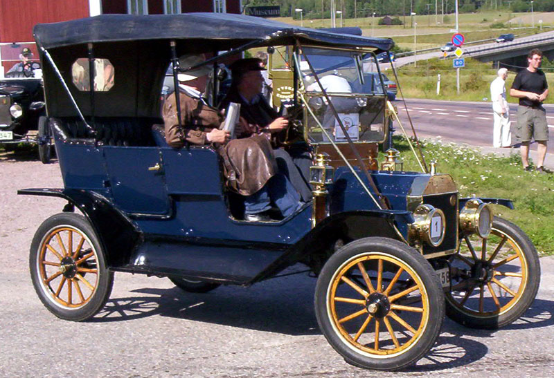 Ford Model T Touring 1911